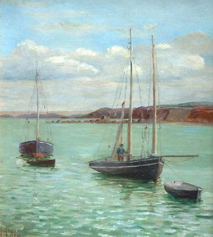 "Shipping", oil painting on canvas by Marguerite Arosa (1854-1903)